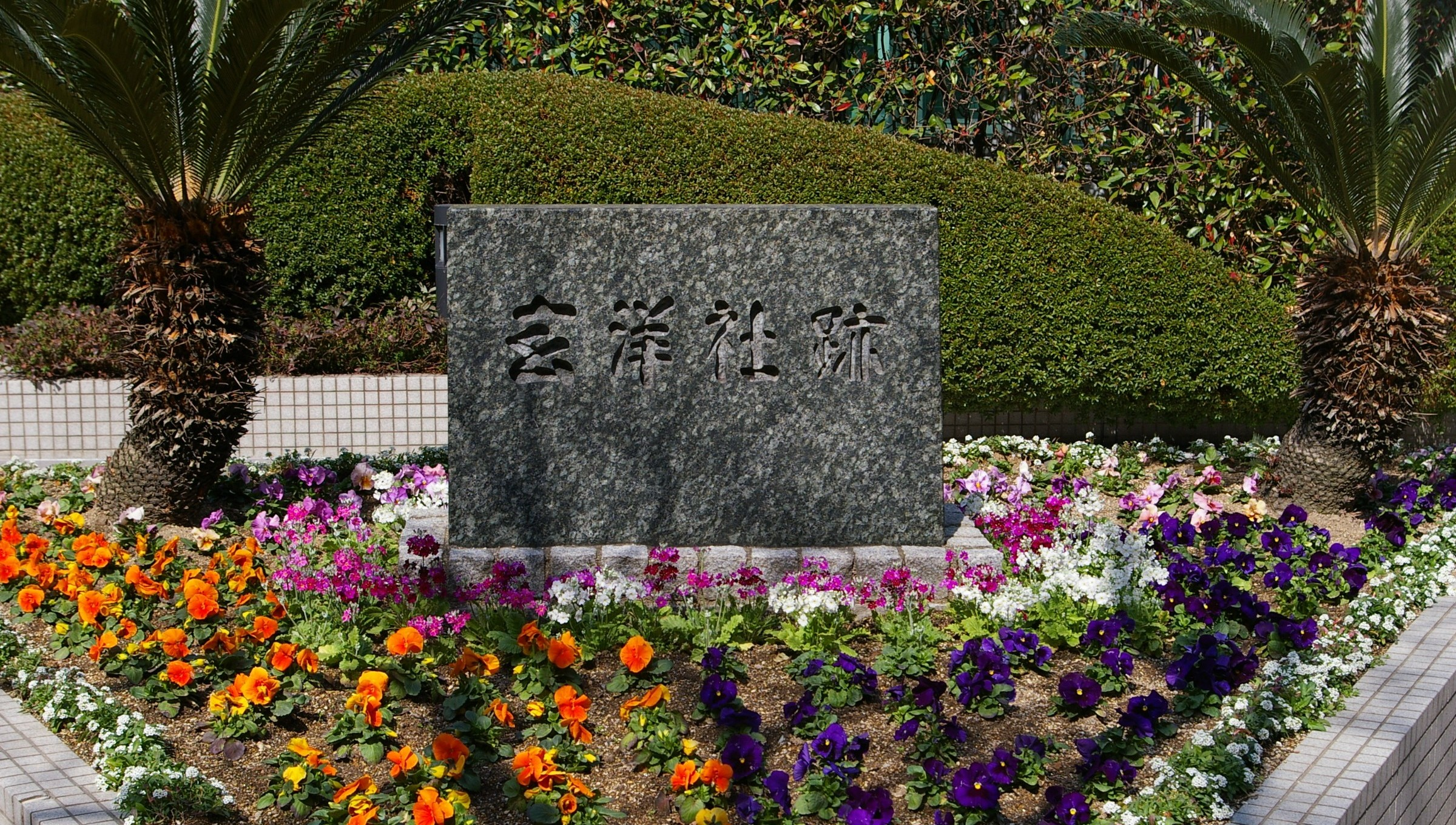 Fukuoka